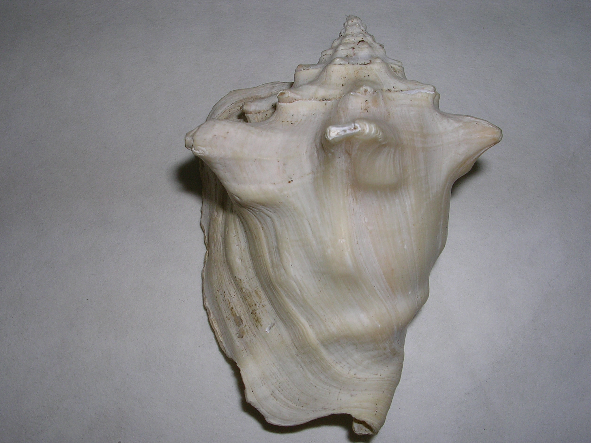 Strombus buvonius fossil (Pleistocene) founded in Almería, in a laboratory of practices of the Faculty of Sciences of the University of Corunna.